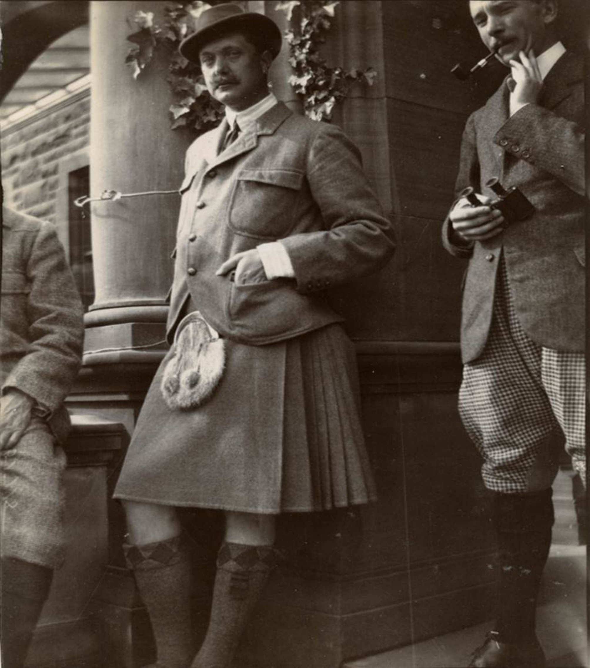 Sir George Bullough was born on 28 February 1870 in Accrington, Lancashire. He married Monique Lilly Ducarel de la Pasture (1869-1967) at Kinloch Castle on the island of Rùm on 24 June 1903. Sir George Bullough, 1st Baronnet, died in France in the city of Le Touquet on 26 July 1939.